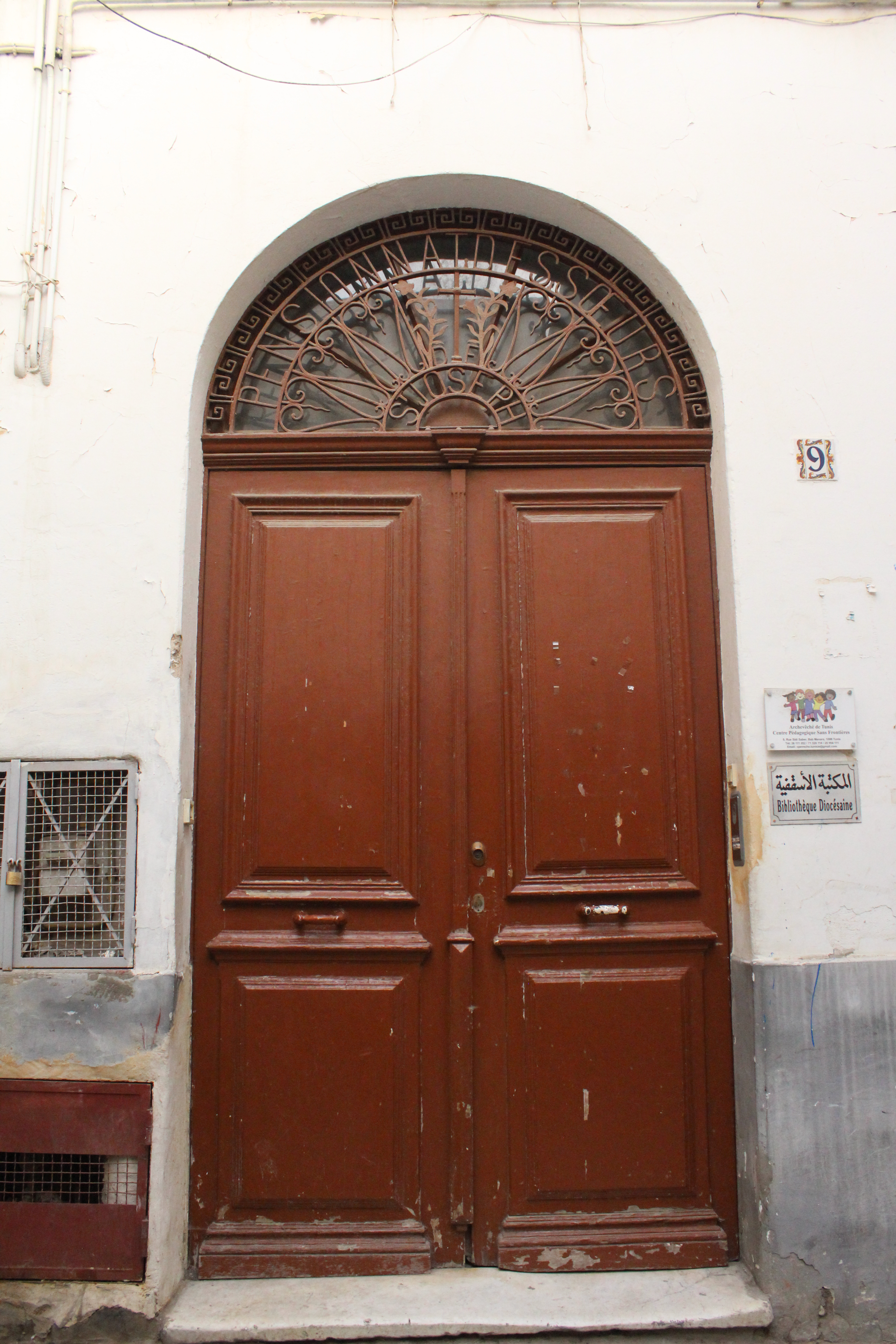 Medina old town of Tunis, Tunis